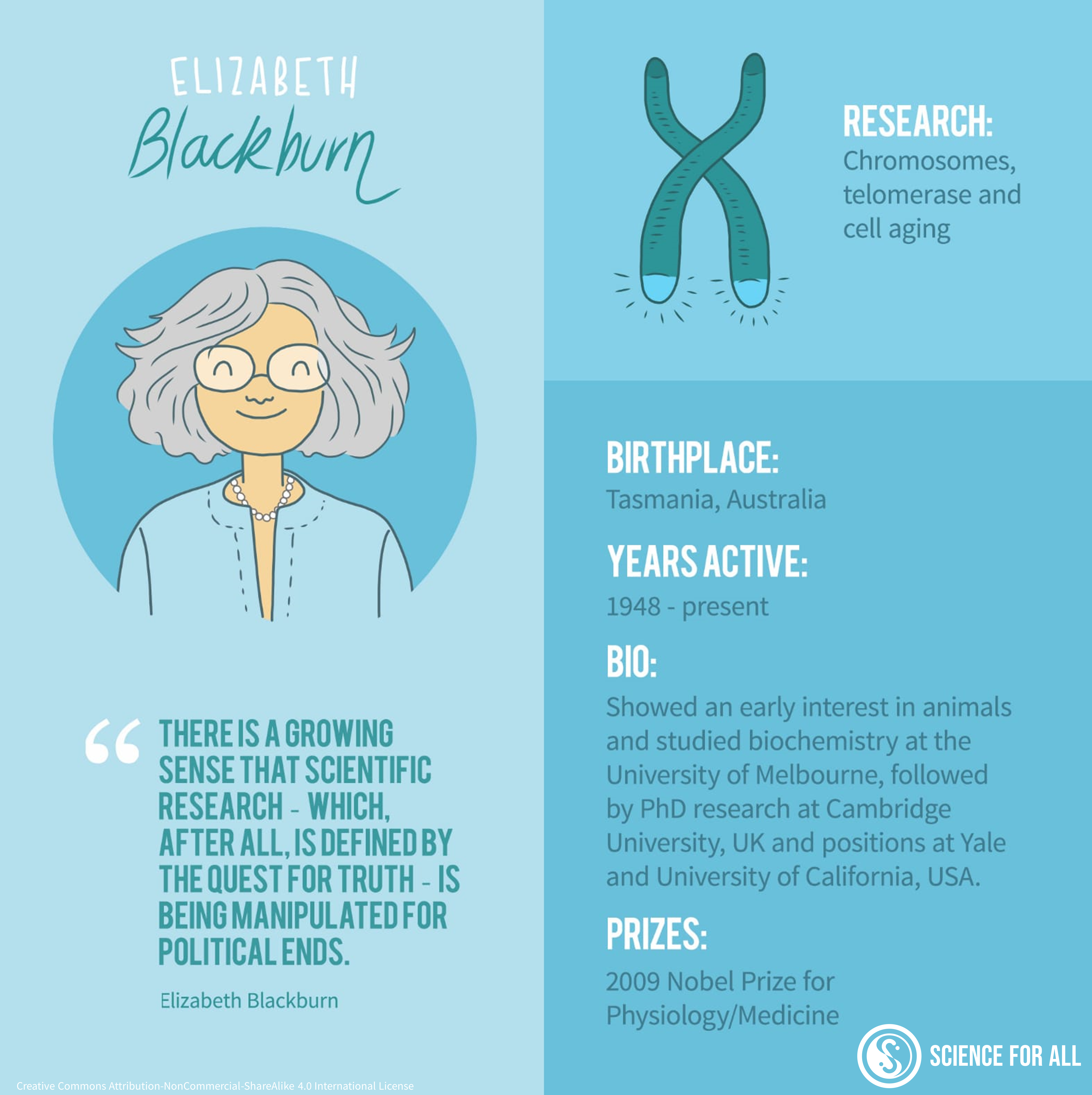 Profile of Elizabeth Blackburn created by Science for All - scienceforall.world